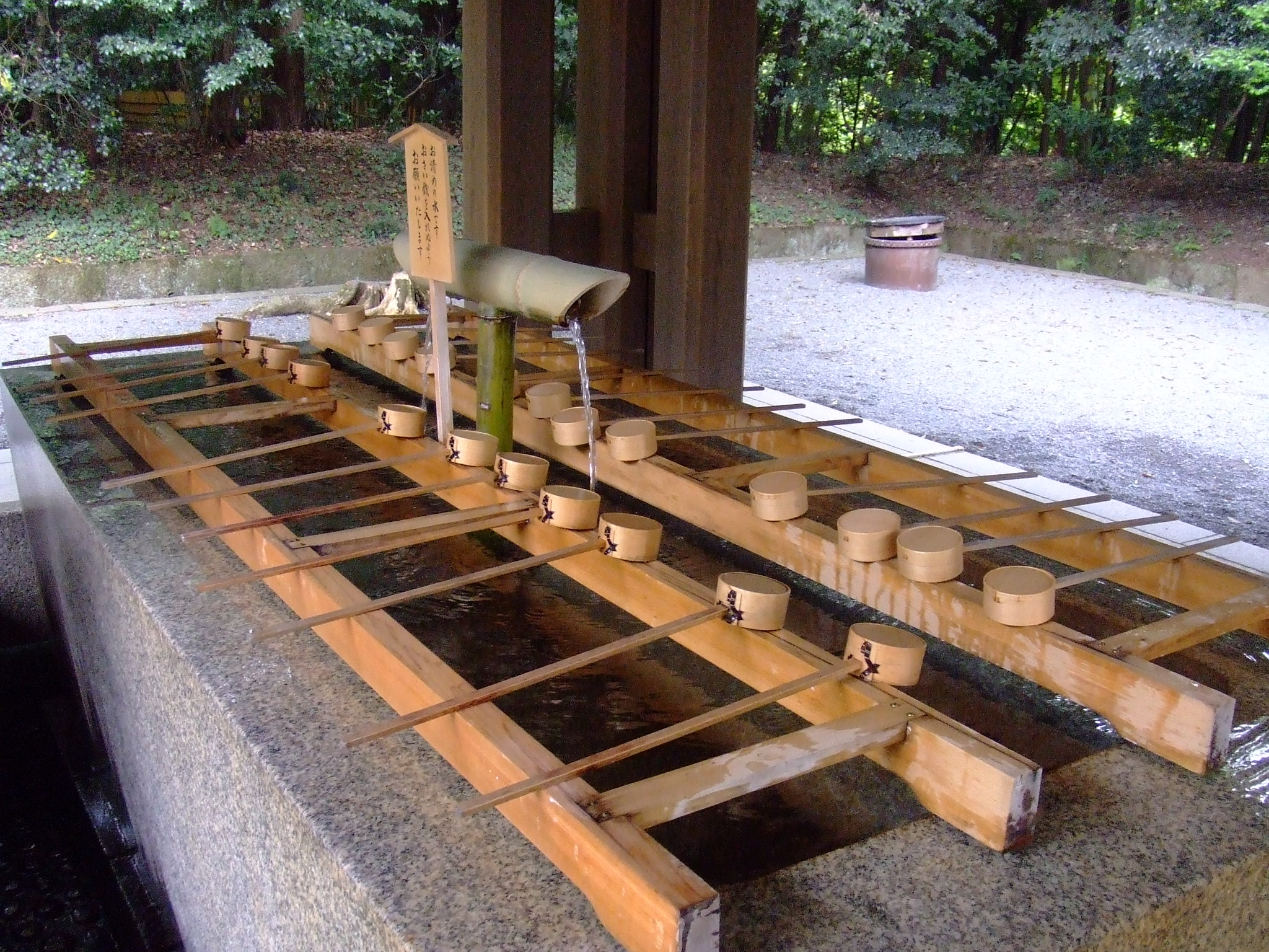 Chōzuya (basin for ritual cleansing) at the Meiji shrine